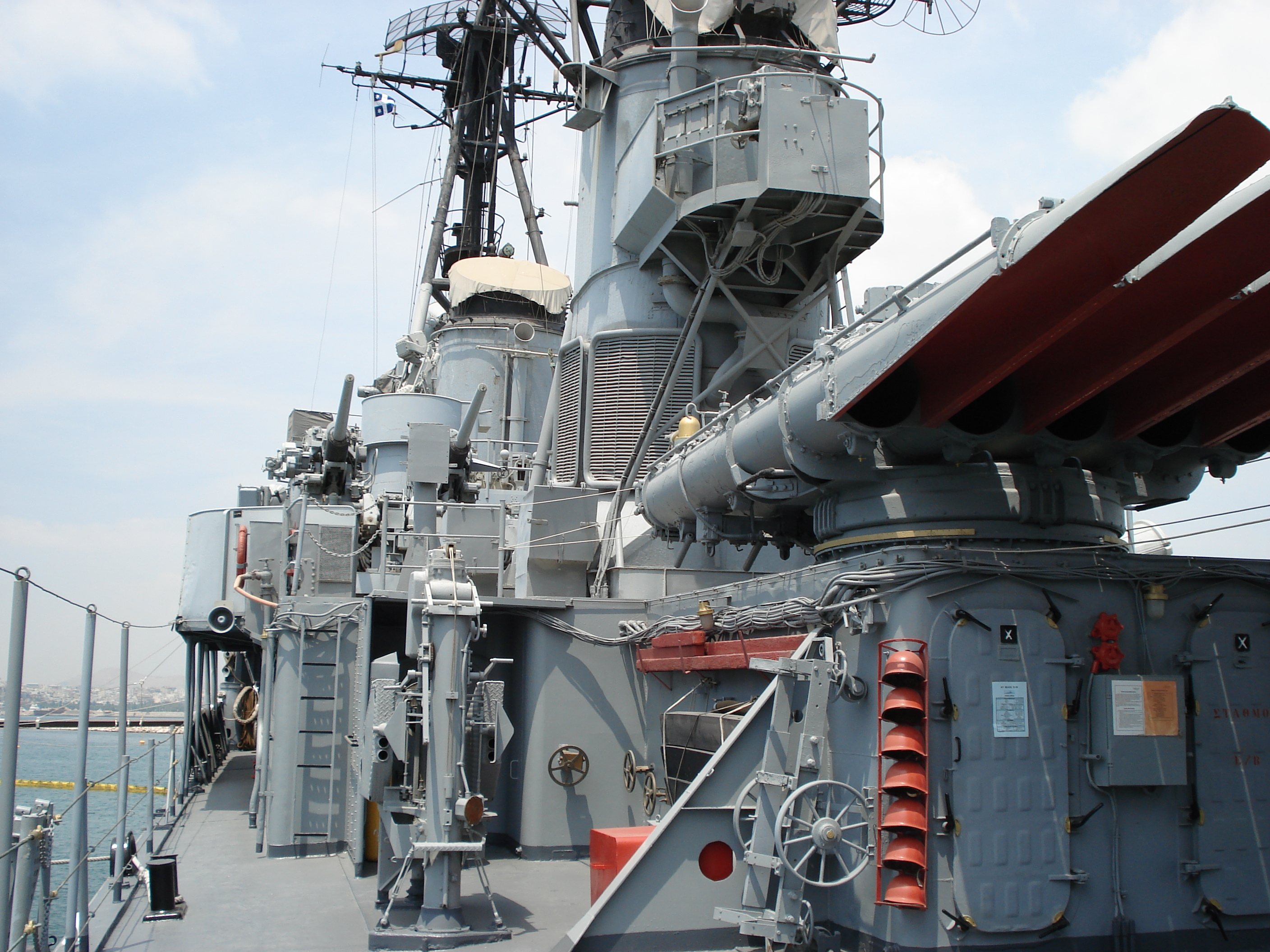 Destroyer Velos D16 formerly USS Charrette as floating museum photo taken by me in 20 May 2006. Amidships view to bow and bridge.The 533 mm (21") torpedo tubes and 76 mm (3") AA guns can be seen